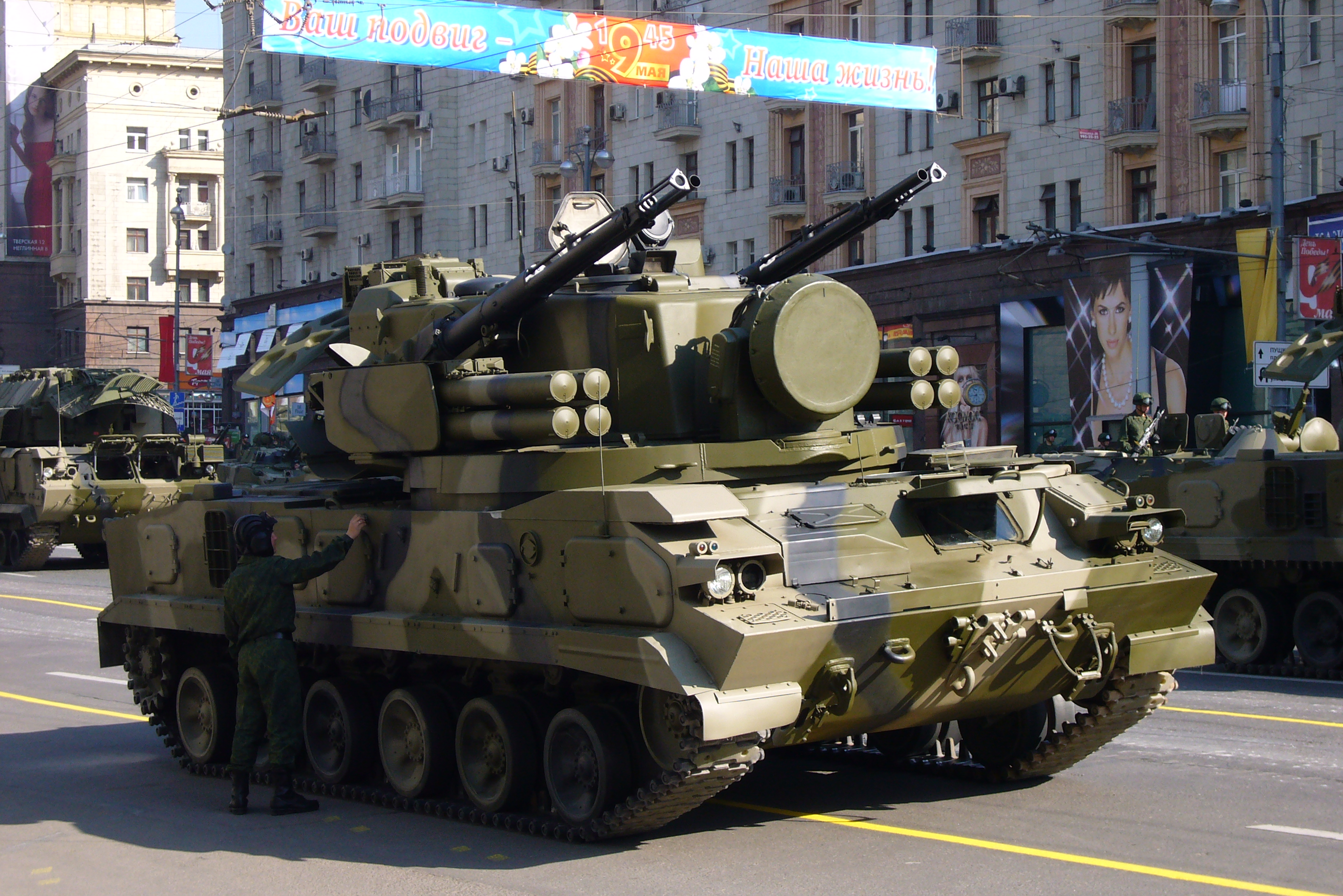 Victory Day Anniversary Parade Rehearsal, Tverskaya Street, Moscow, Russia, May 5, 2008.